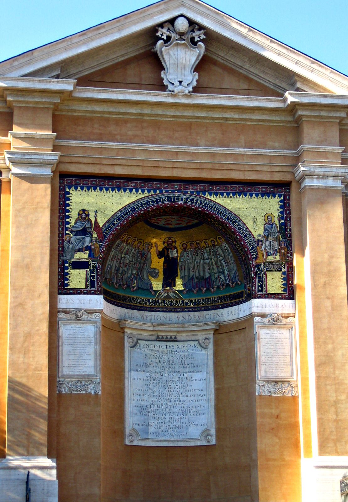 Triclinium of Pope Leo III in the Lateran Basilica